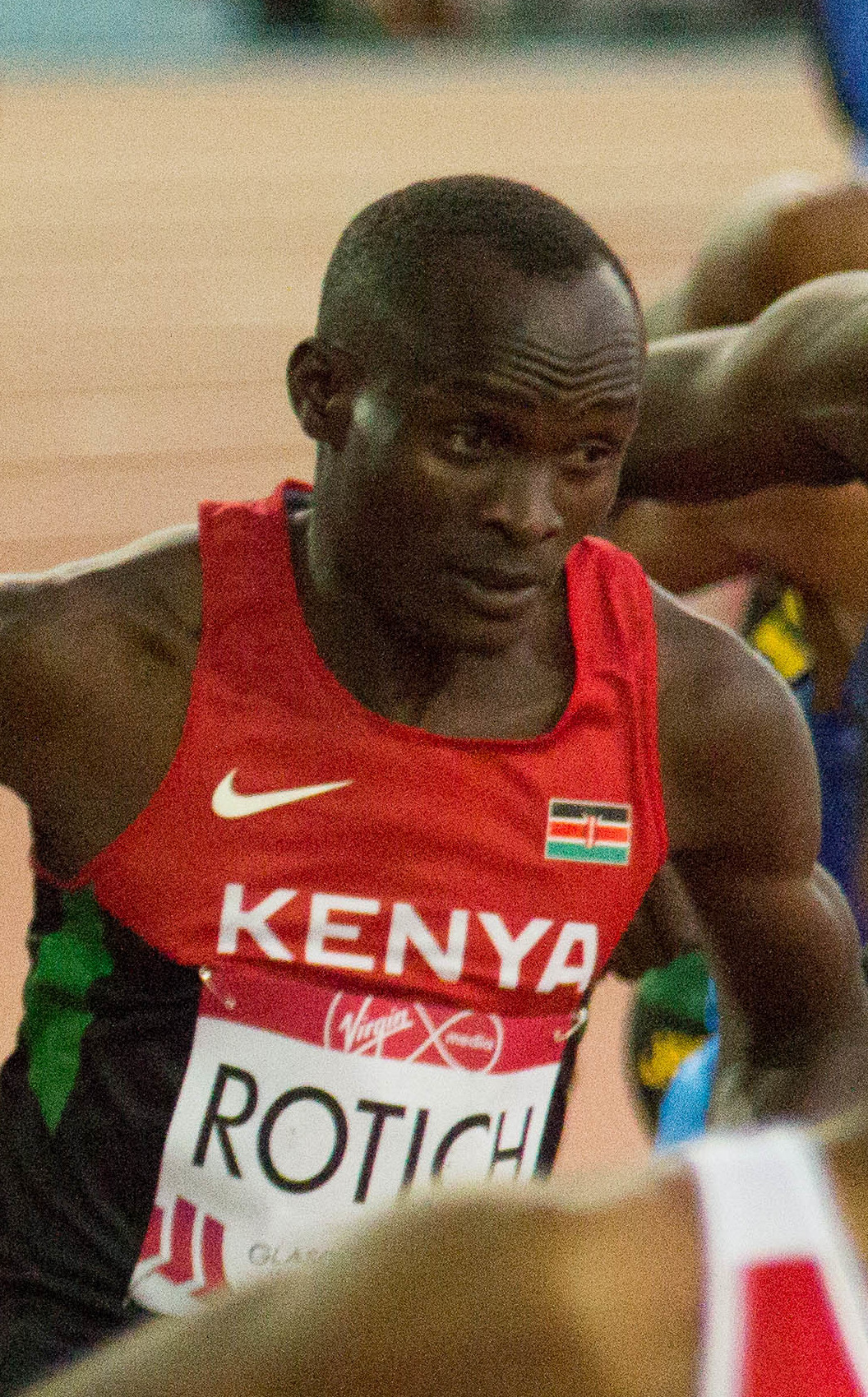 Commonwealth Games 2014 - Athletics Day 4 2014 Commonwealth Games Day 4: Athletics